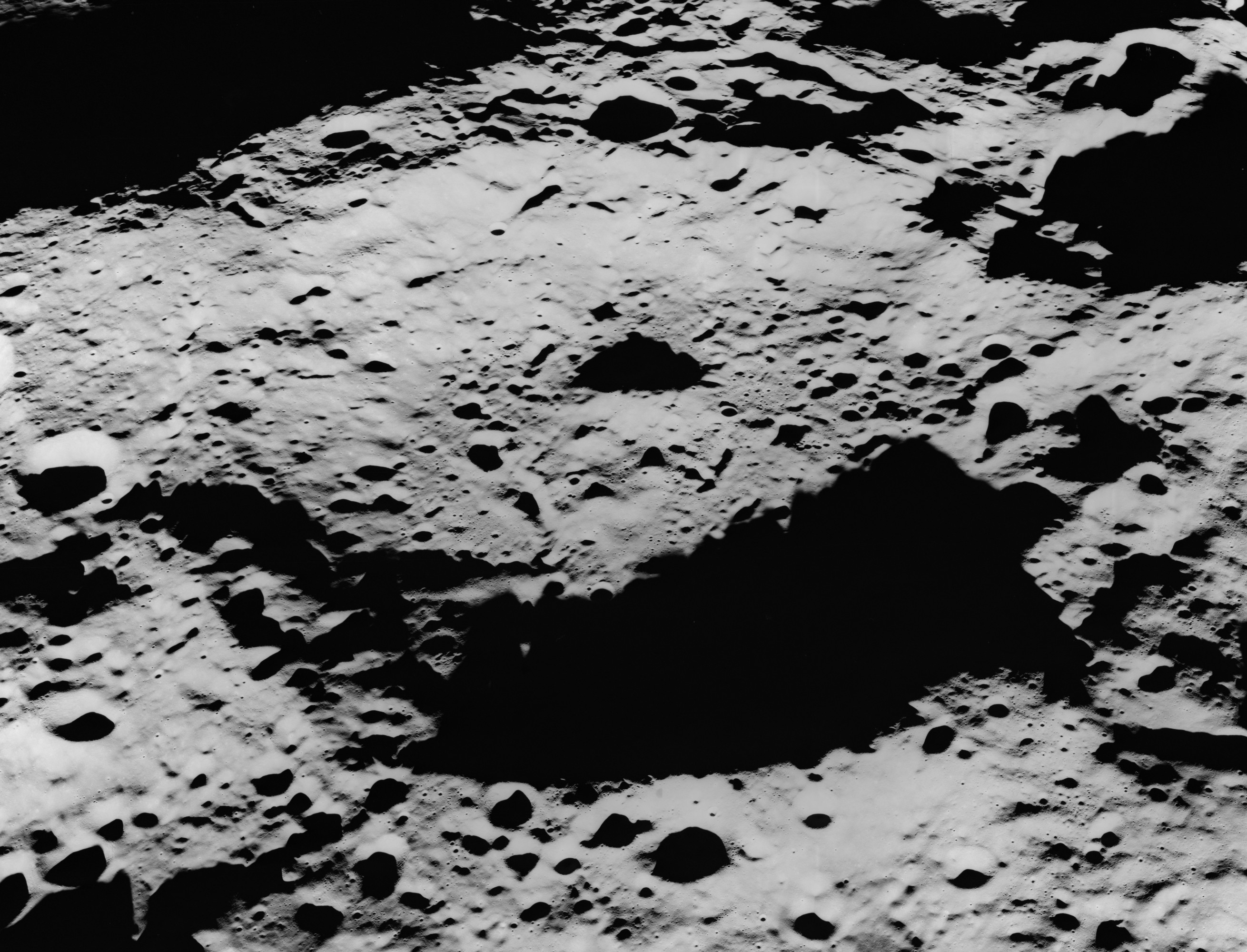 Oblique view of Levi-Civita, on the far side of the moon, while it was near the sunset terminator. Facing east.